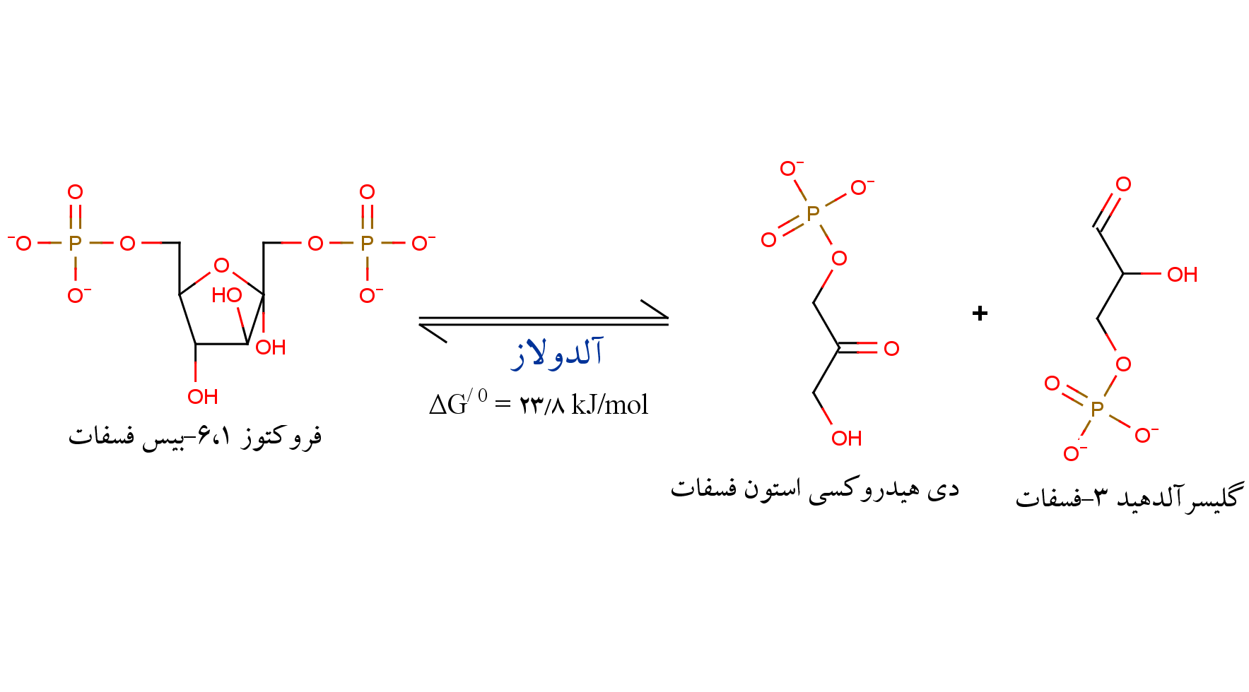 enolase reaction